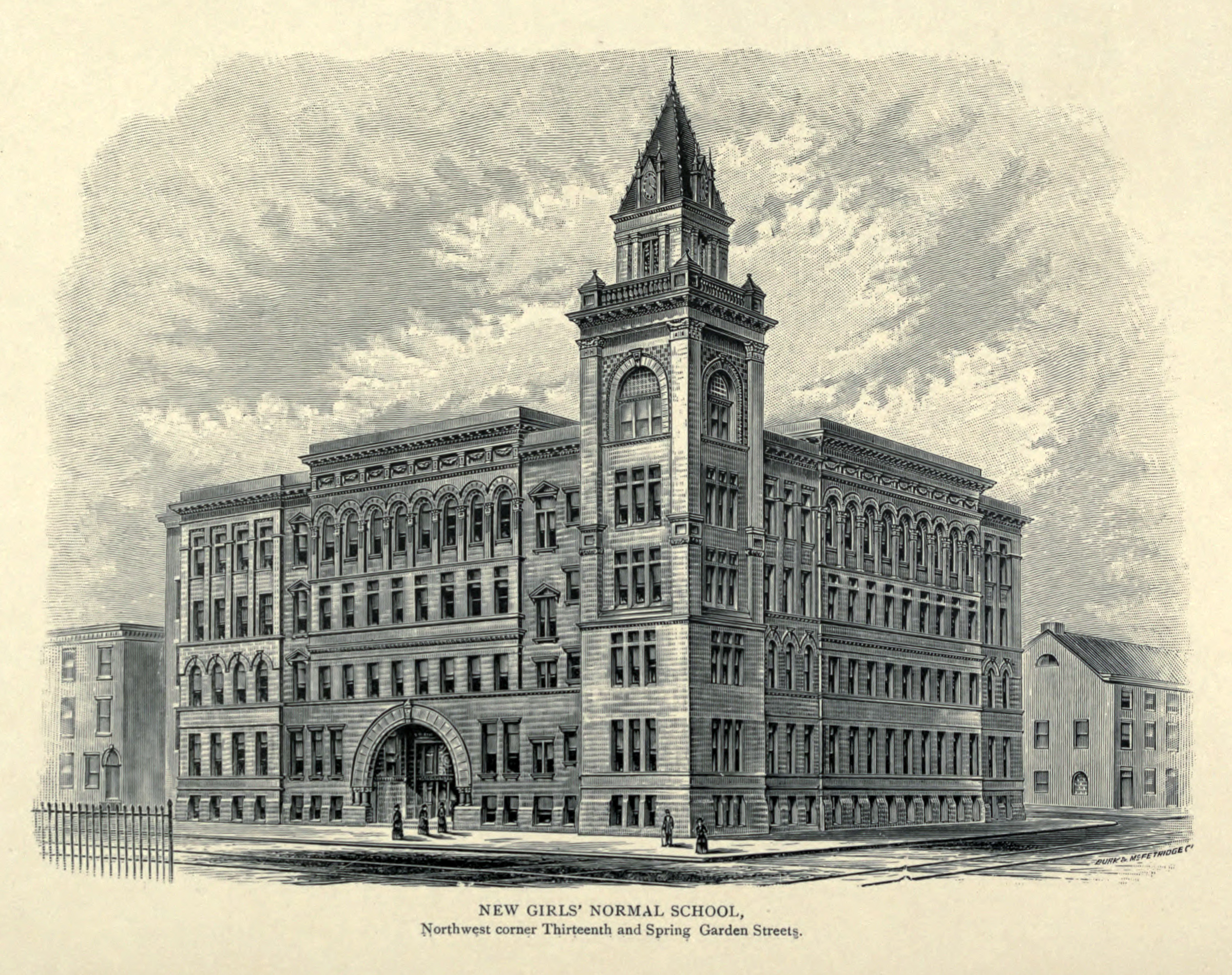 New Girls' Normal School, Northwest Corner Thirteenth and Spring Garden Streets, Philadelphia PA (1893) From The Public Schools of Philadelphia: Historical, Biographical, Statistical by John Trevor Custis, Burk & McFetridge Co. Publisher, 1897 (